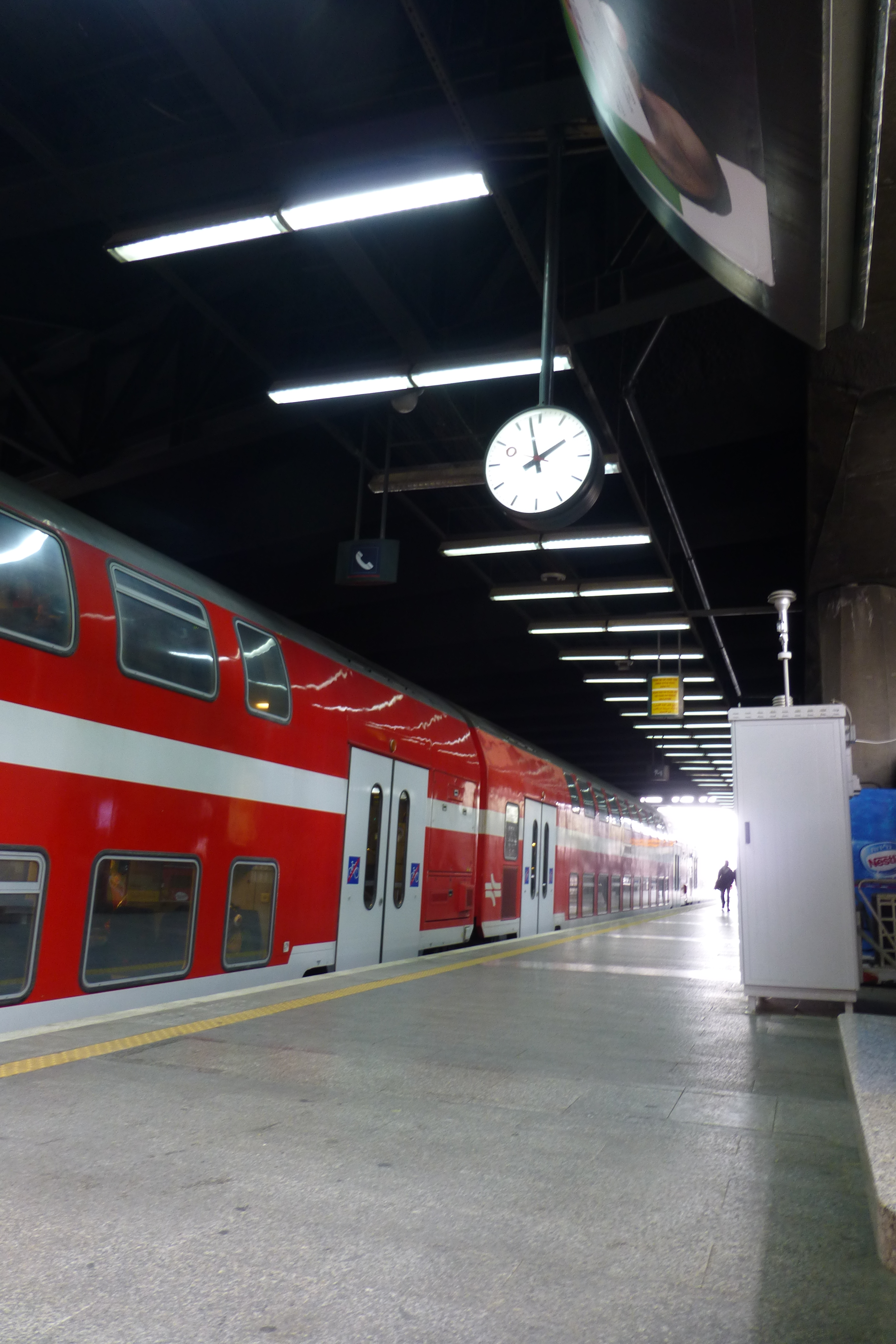 Tel Aviv HaShalom train station